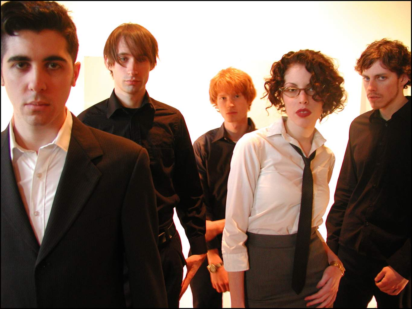 The band Soviet during a photo shoot in New York, 2002.